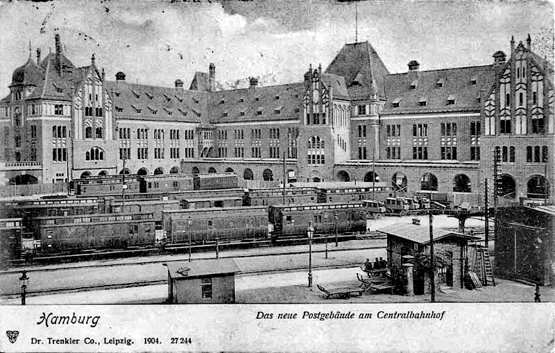 Railway Mail Service Station Hamburg Hühnerposten